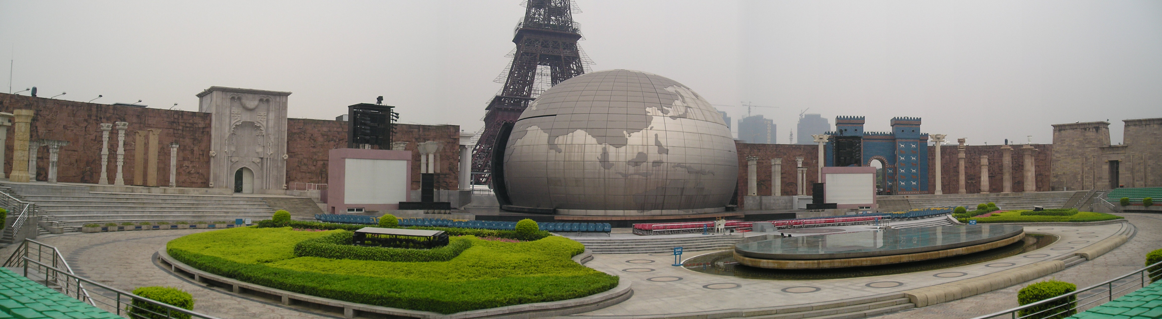 Shenzhen